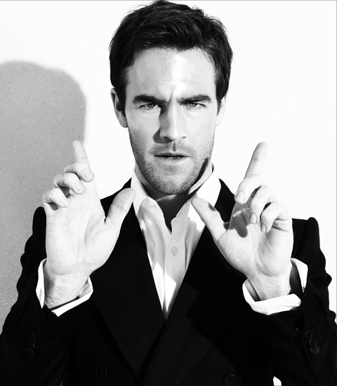 Image is of James Van Der Beek, American television, film, and stage actor. This image was taken in SanSierra Studio, New York, NY, US.